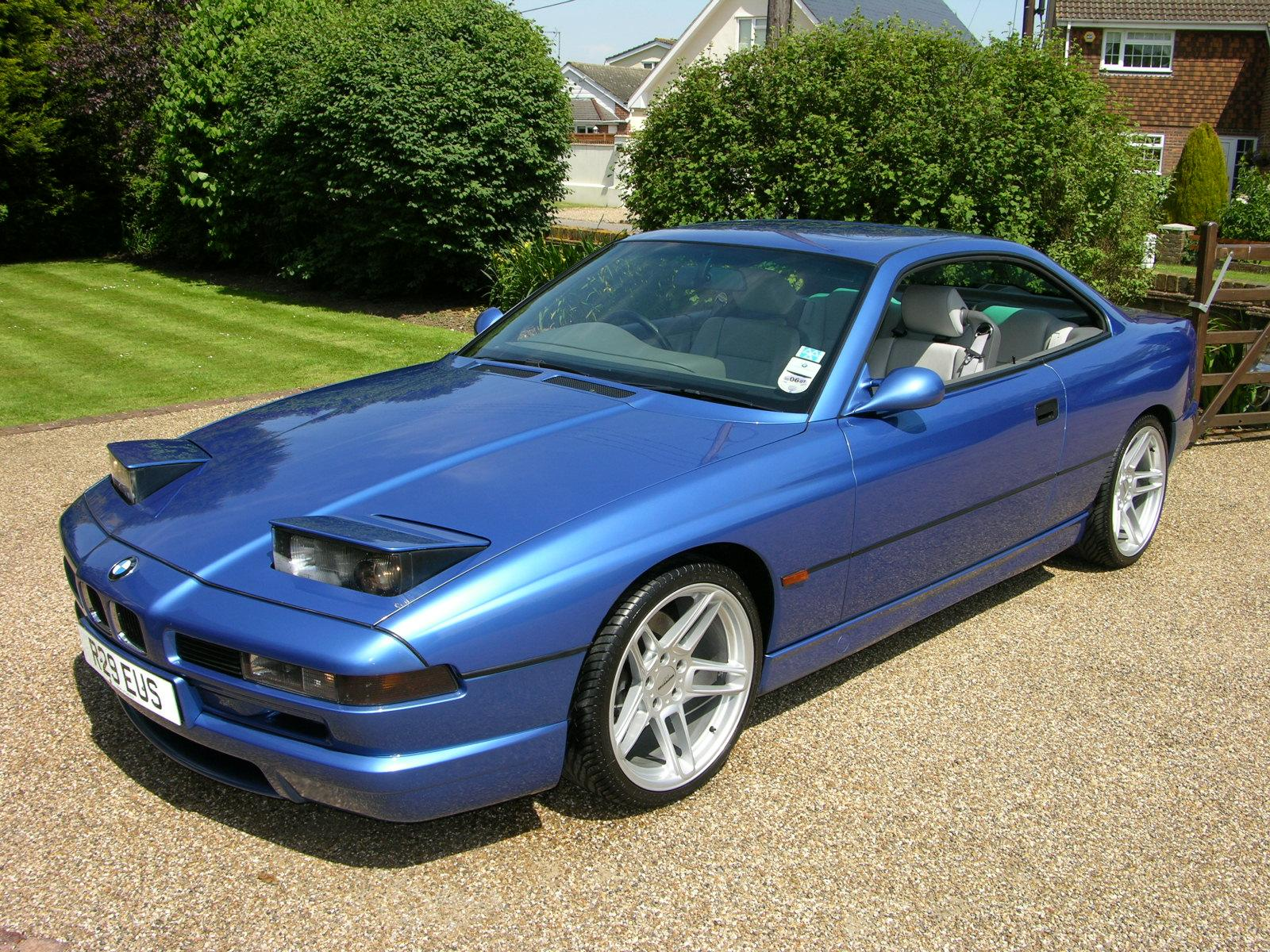 BMW E31 840Ci Sport.